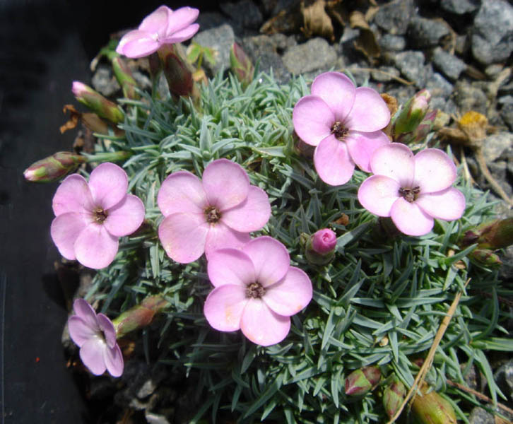 Dianthus gratianopolitanus subsp. pulchellus